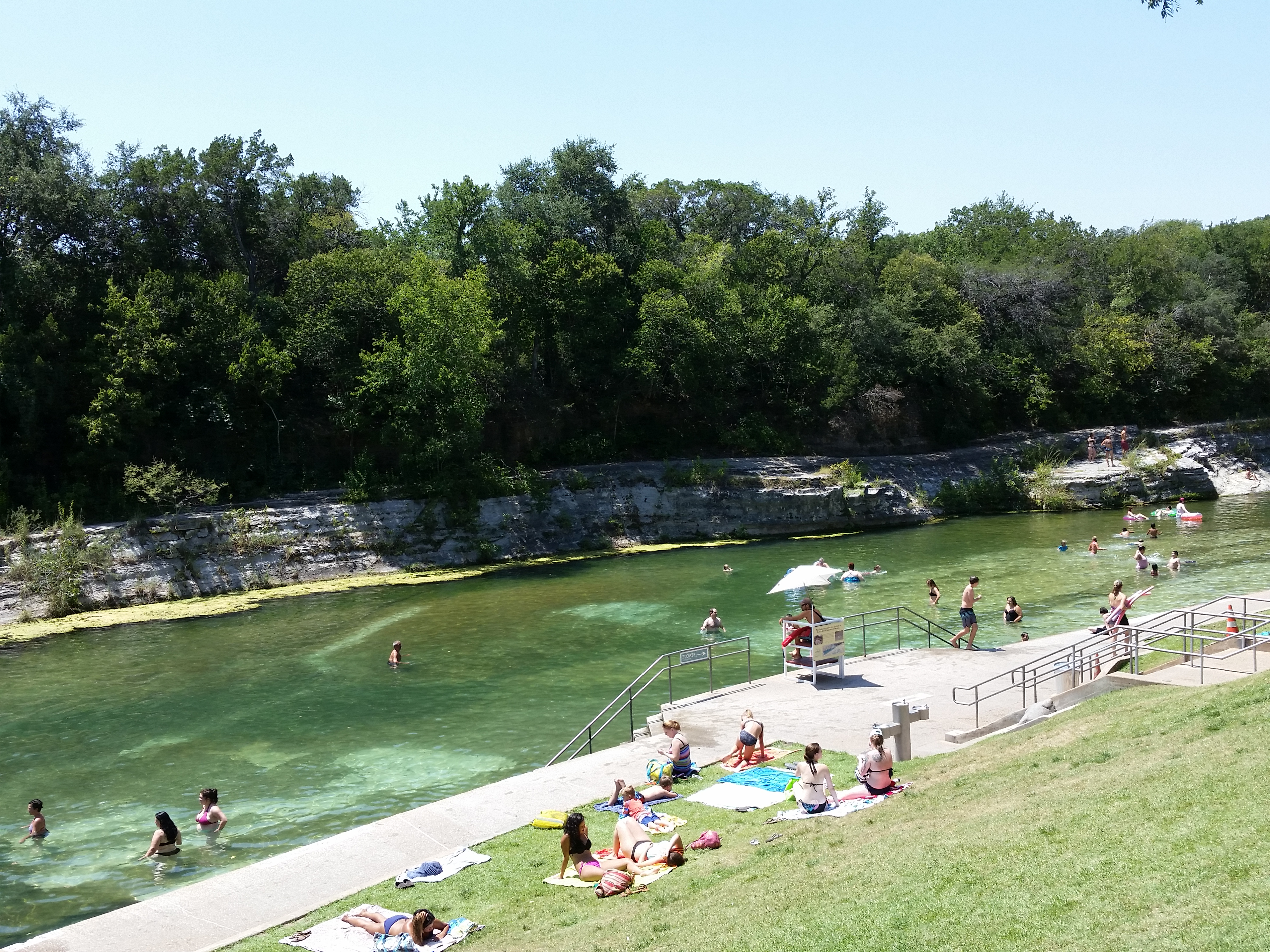 Barton Springs community swimming pool in Austin, TX